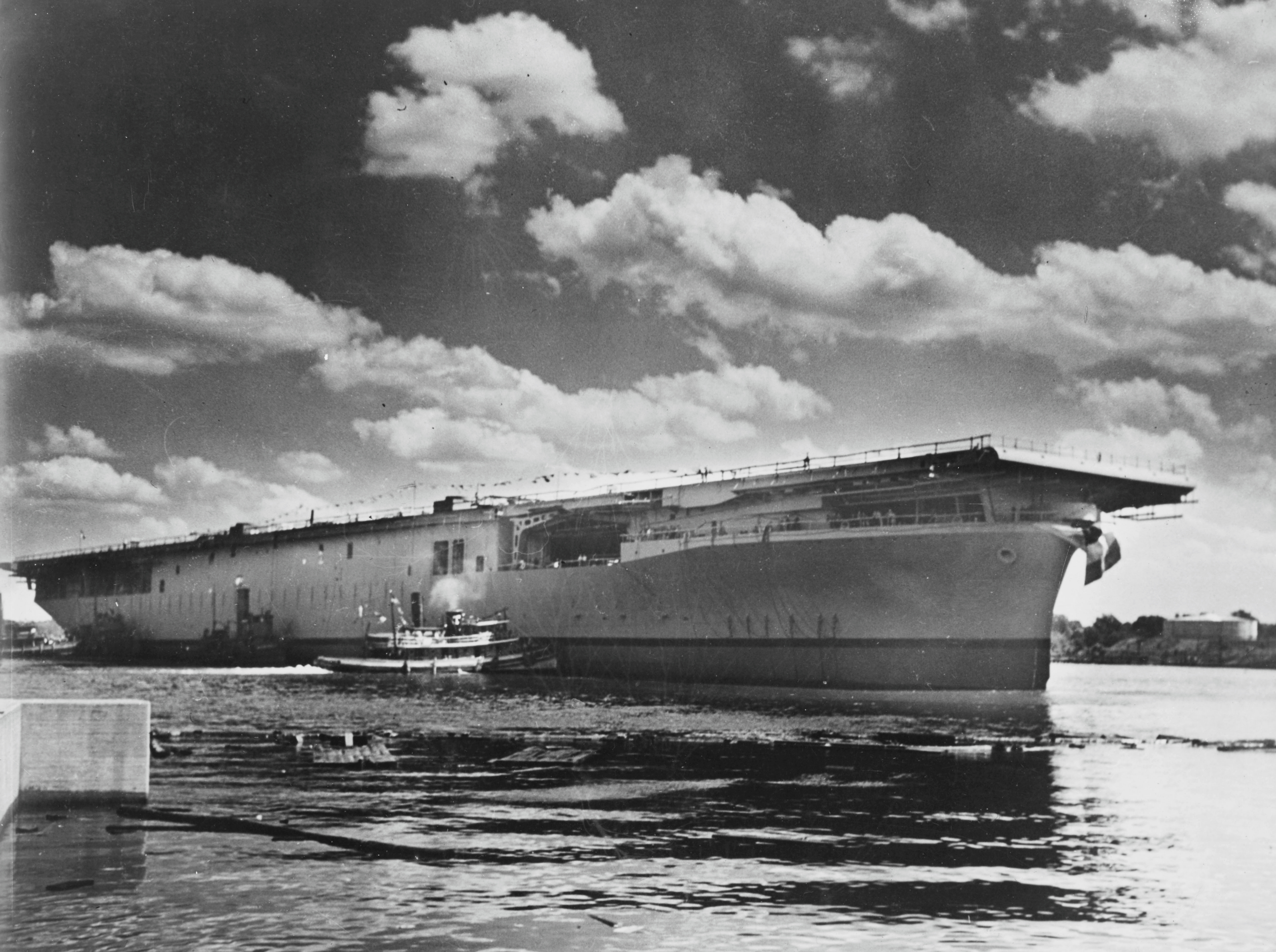 The U.S. Navy aircraft carrier USS Wasp (CV-18) immediately after her launch at the Fore River Shipyard, Quincy, Massachusetts (USA), on 17 August 1943.